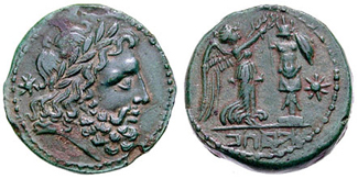 Campania, Capua. 216-211 BC. Æ Uncia (7.20 gm). Laureate head of Zeus right, star behind Nike standing right, placing a wreath on a trophy, star right. HN Italy 493;SNG ANS 212-214; BMC Italy pg. 81, 7; SNG Copenhagen 338; Sambon 1037; SNG Morcom 89; Laffaille -; Weber 295 (this coin). EF, choice emerald green patina with a trace of earthen highlights. Ex Virgil Brand Collection (Sotheby's, 25 October 1984), lot 258; Sir Hermann Weber Collection, 295.